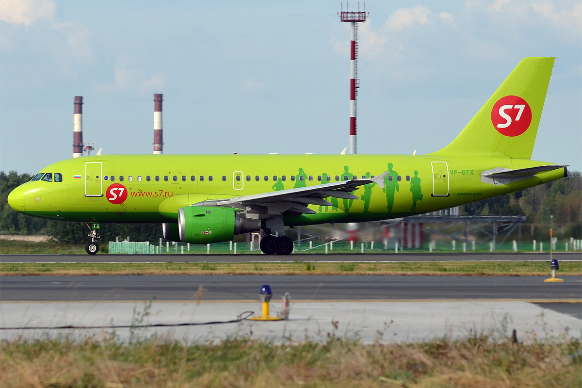 S7 Airlines, VP-BTX, Airbus A319-114